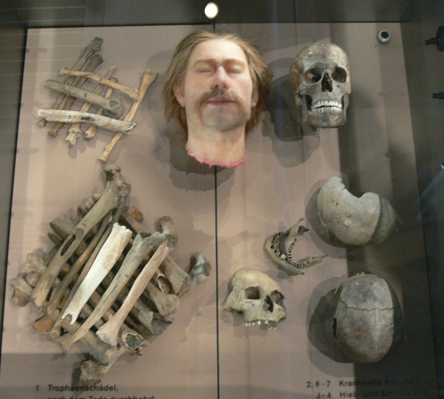 Celtic Museum Manching ( Bavaria ). Reconstruction of Celtic bone and skull trophies.